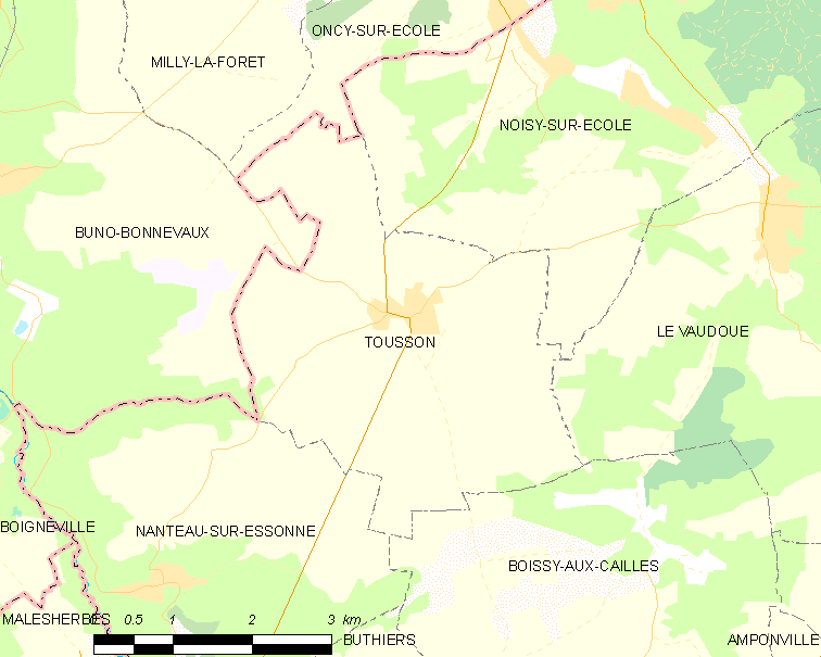 Map of French municipality Tousson